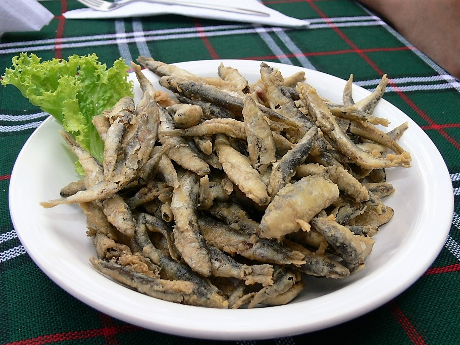 Fried sprat.